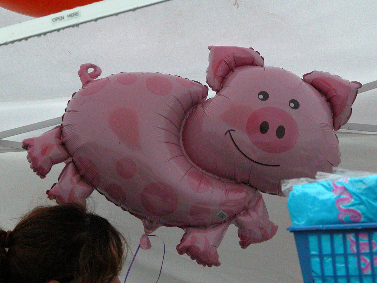 Lexington Barbecue Festival 2008 - Most of the souvenirs are pig related, like this pig balloon.